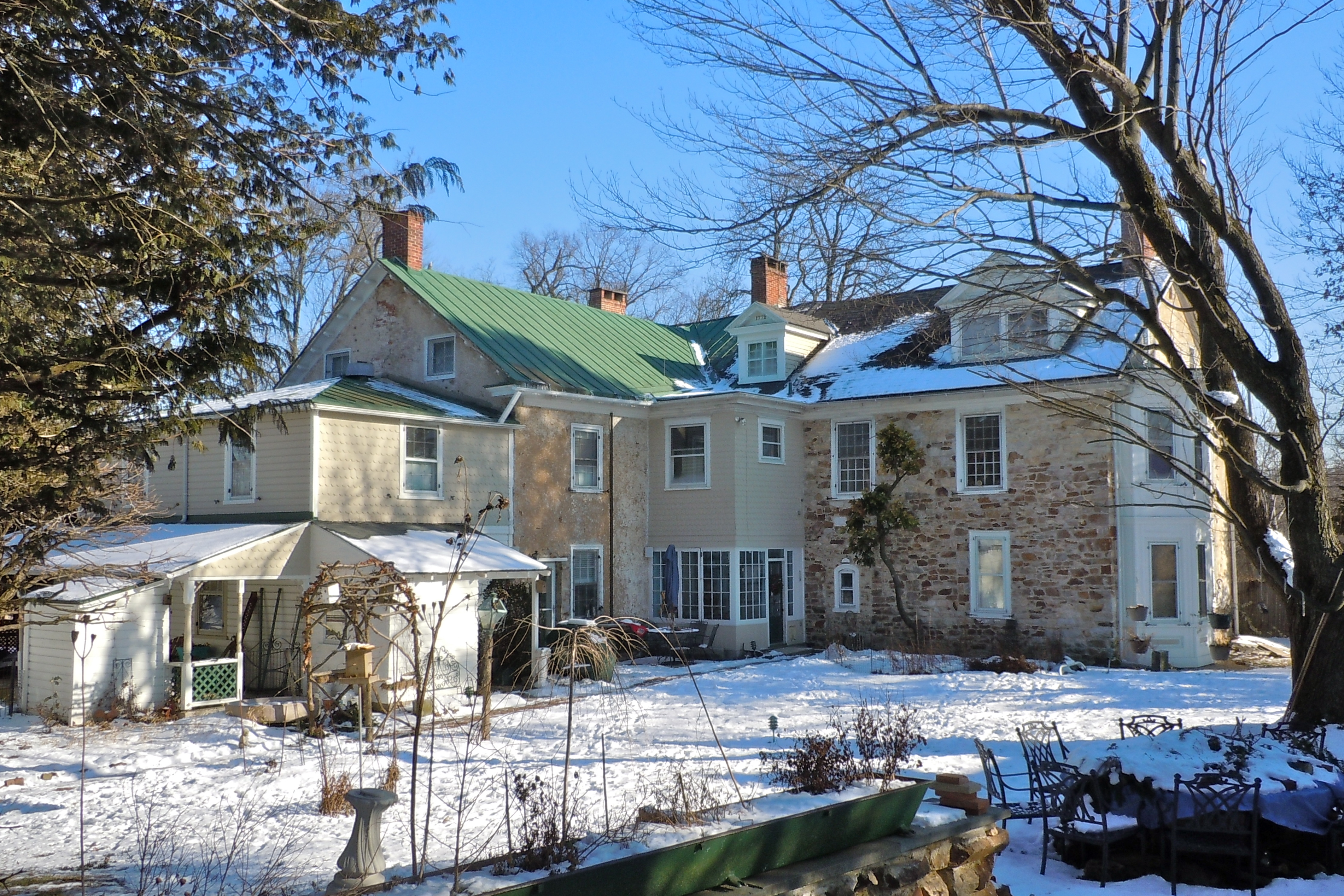 "Oaklands" a house on the NRHP since September 6, 1984, at 349 West Lincoln Highway, in West Whiteland Township, Chester county, Pennsylvania. Now divided up into about 5 apartments.